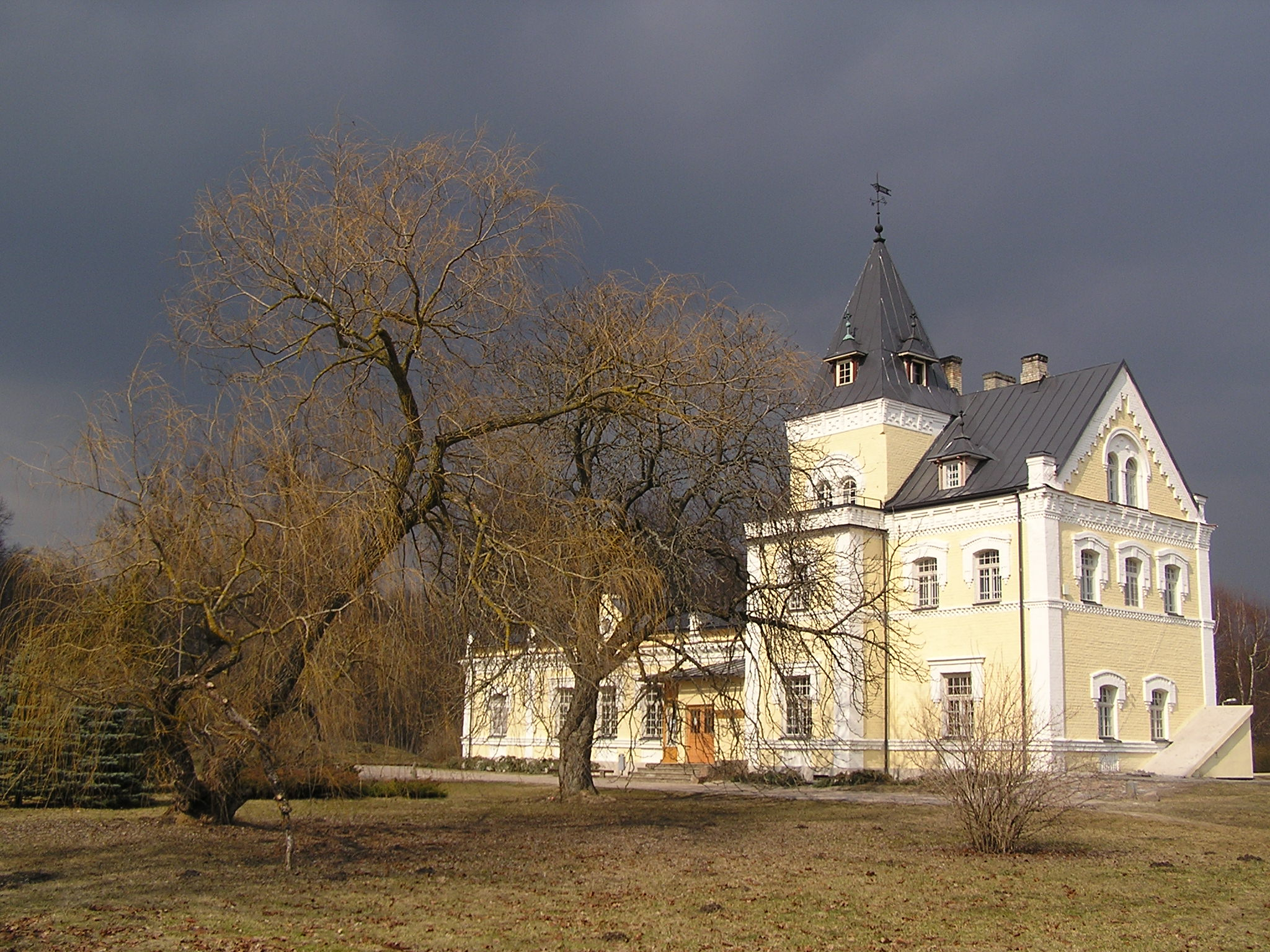 Dolessala nr.1